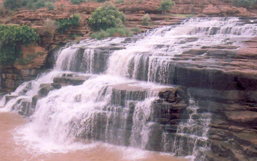 Godachinamalki Falls